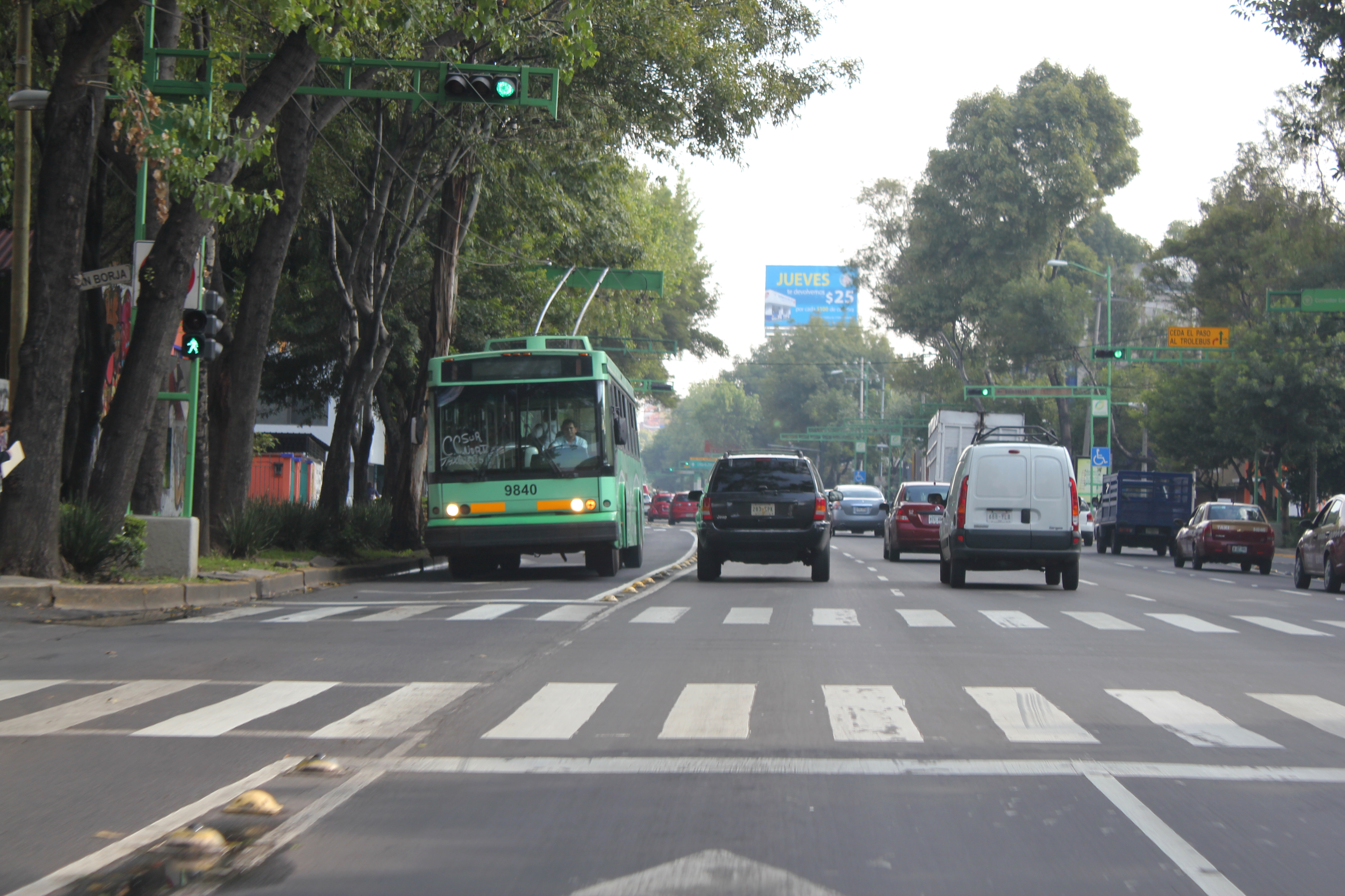 Looking north on Mexico City's Eje Central (Avenida Lázaro Cárdenas on this section) at Calle San Borja, as a trolleybus southbound on STE line A uses a trolleybus-only contraflow lane.